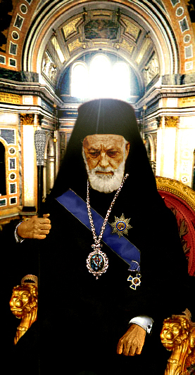 The Metropolitan of Korinthos, Sikion, Zemenon, Tarsos and Polyfengos Panteleimon Karanikolas (1919-2006) in a 1998's photo